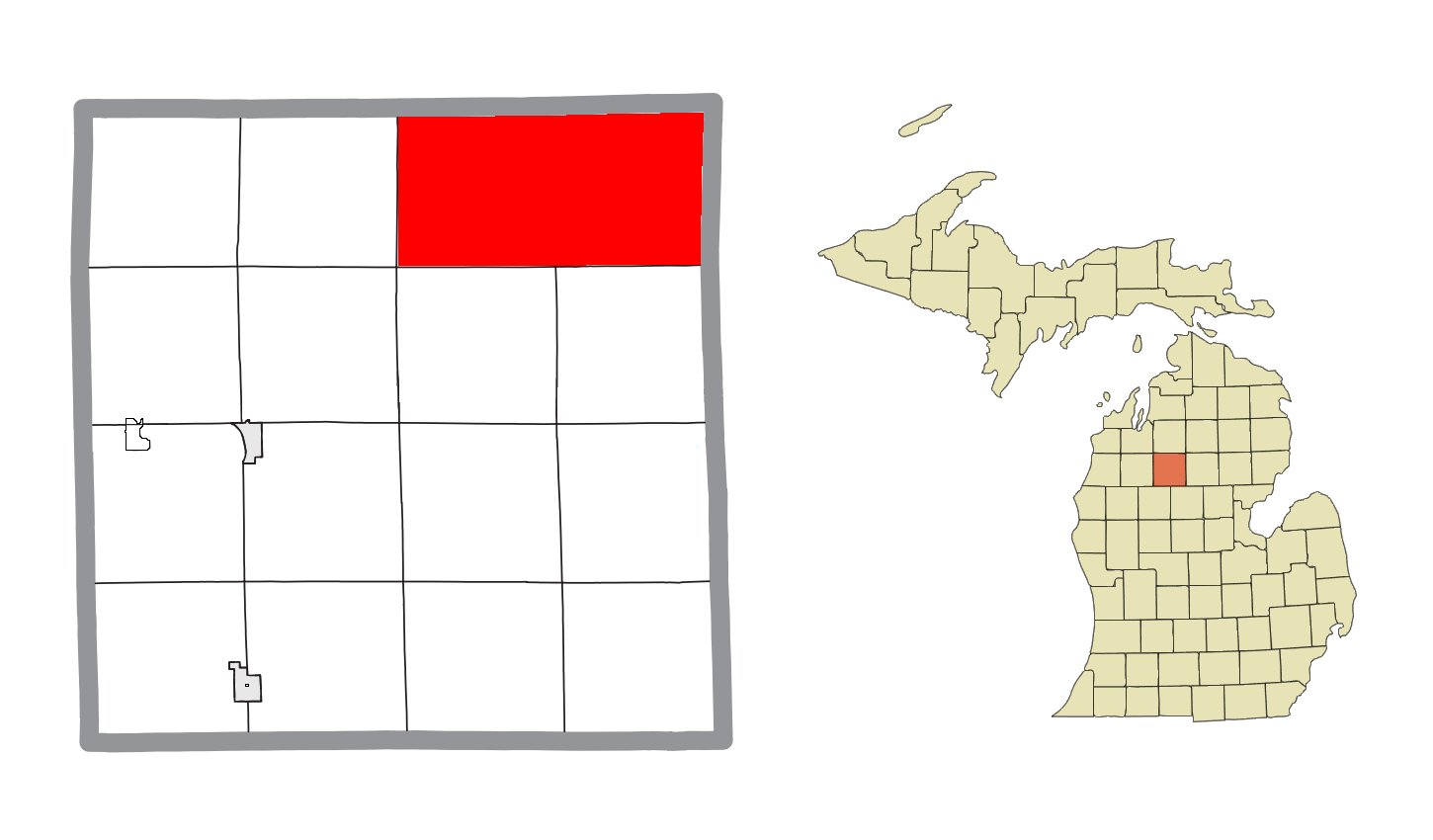 Norwich Township (Missaukee), MI